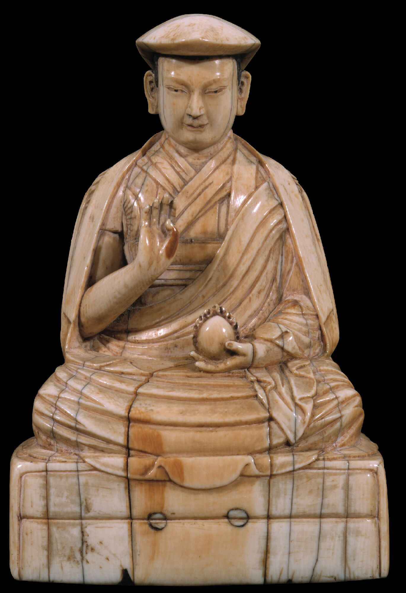 Lhachok Sengge, b.1468 - d.1535, Ninth Ngor Khenchen